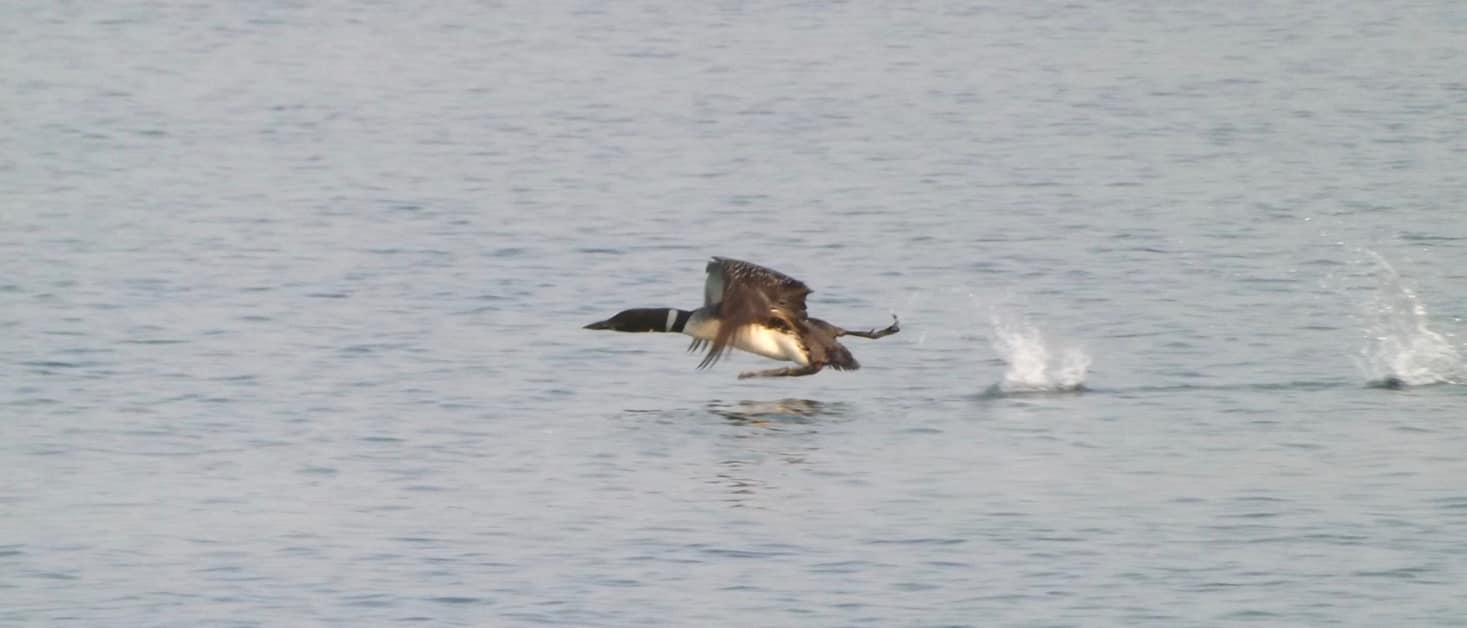 This image shows how the common loon starts its flight by running on the surface of the water to gain the speed necessary prior to taking flight.